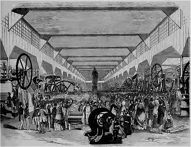 Hall of Machines at the 1844 Paris Industry Exposition